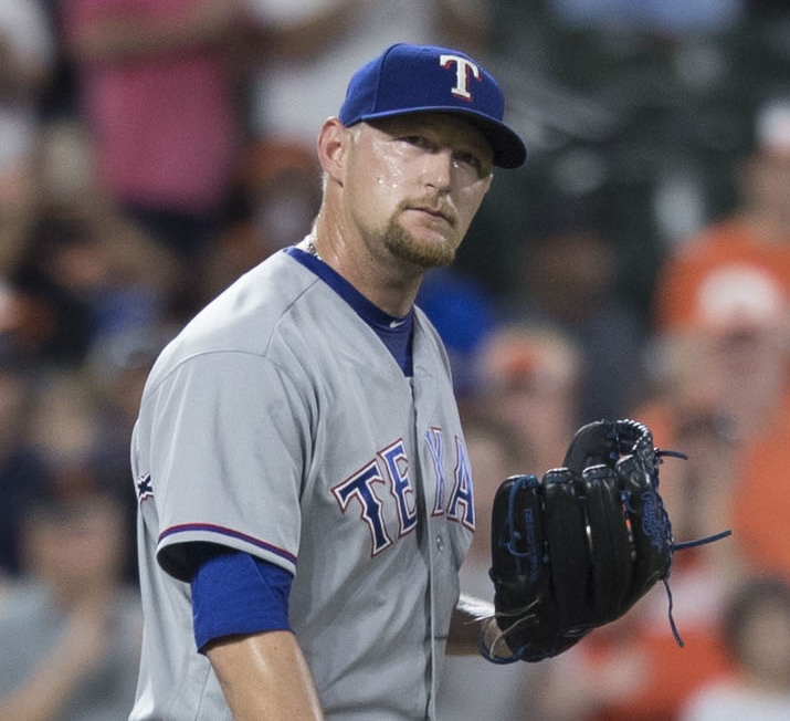 Rangers at Orioles 7/18/17